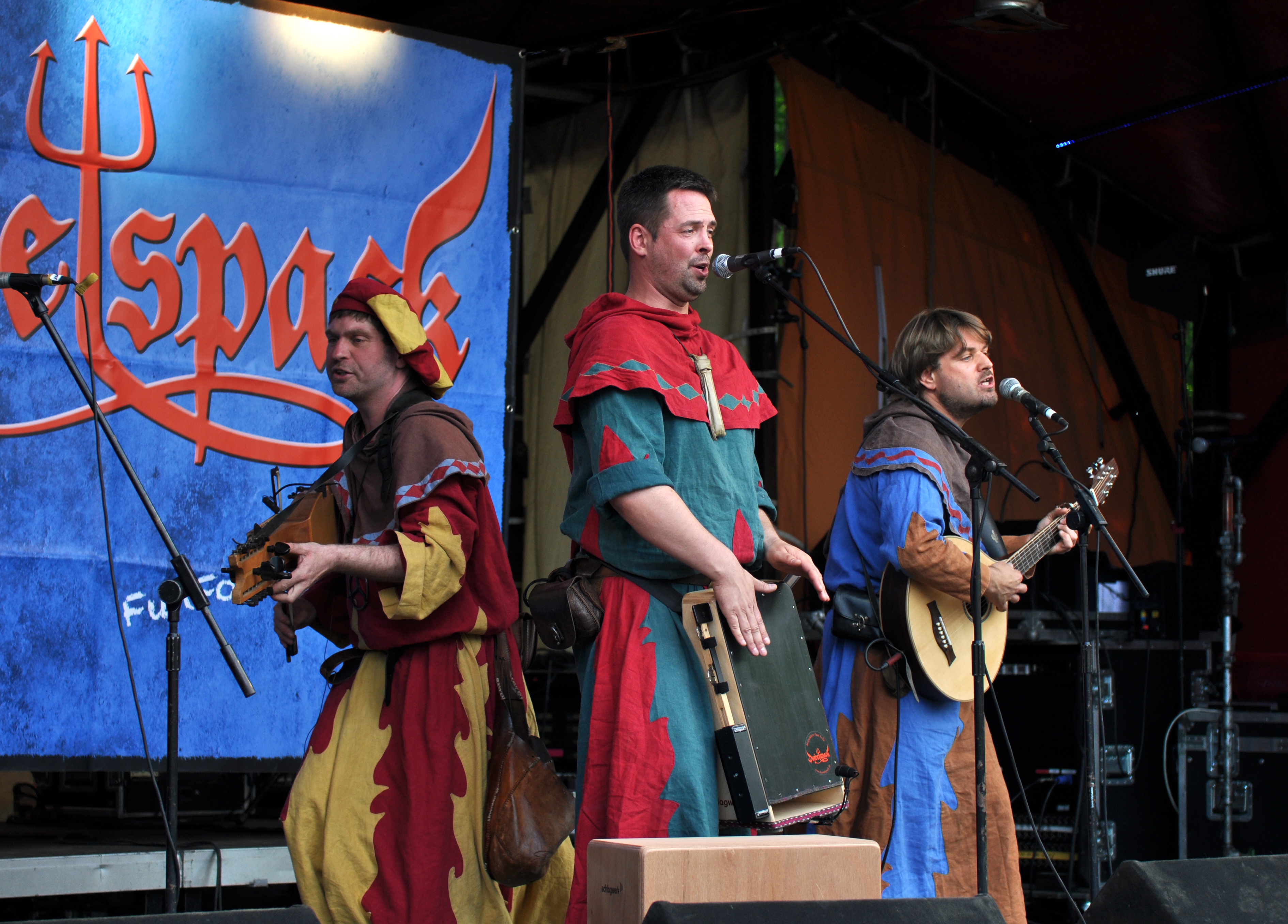 Duivelspack at medieval event Mittelalterlich Phantasie Spectaculum in Wassenberg, Germany, 2014